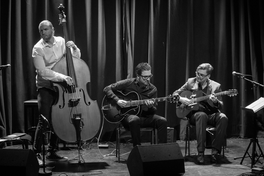 Touche at Cosmopolite. The concert was part of Djangofestivalen 2017 and took place on 21. January 2017 in Oslo. Lineup: Johan Tobias Bergstrøm (guitar) Bård Helgerud (guitar) Fredrik Solberg (double bass)